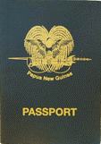 Front cover of a Papua New Guinean passport